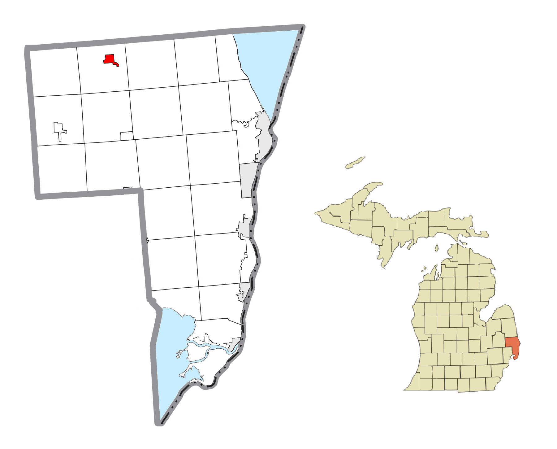 Yale, MI